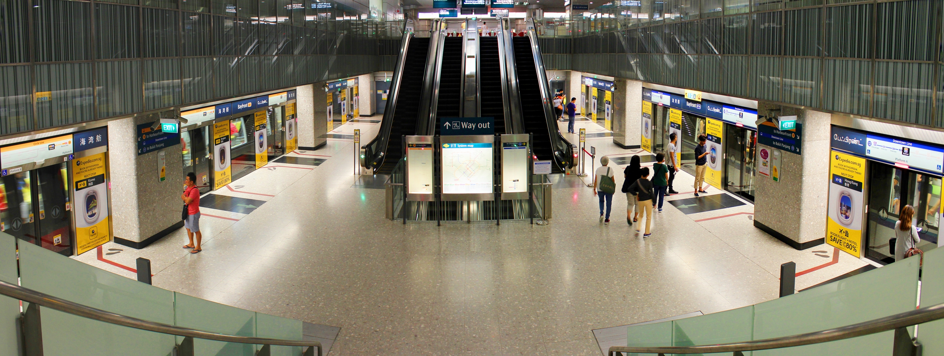 This photo depicts the cross platform interchange between the Circle Line on the left and Downtown Line on the right at Bayfront MRT Station in Singapore.